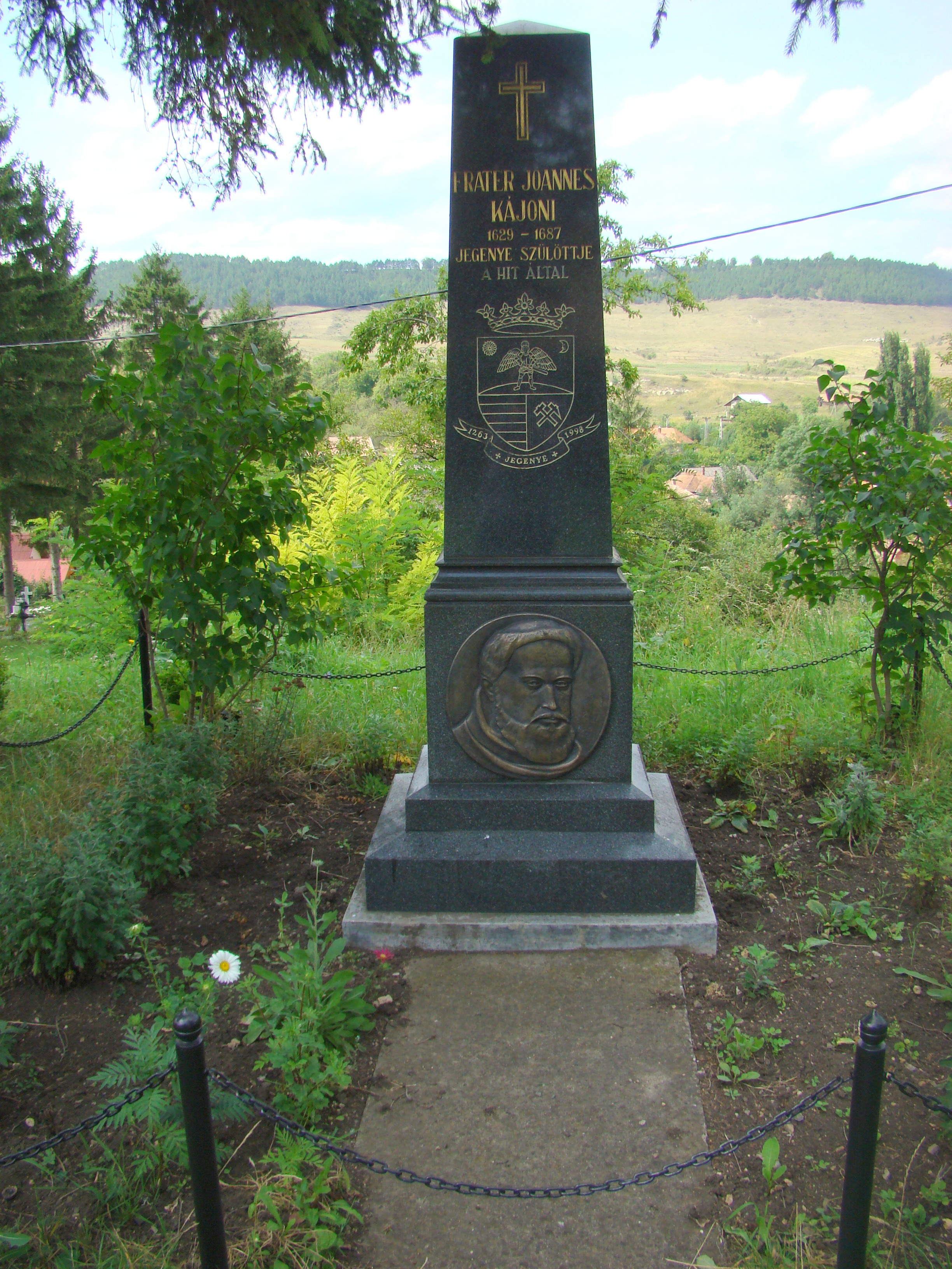 The roman-catholic church in Leghia, Cluj county, Romania